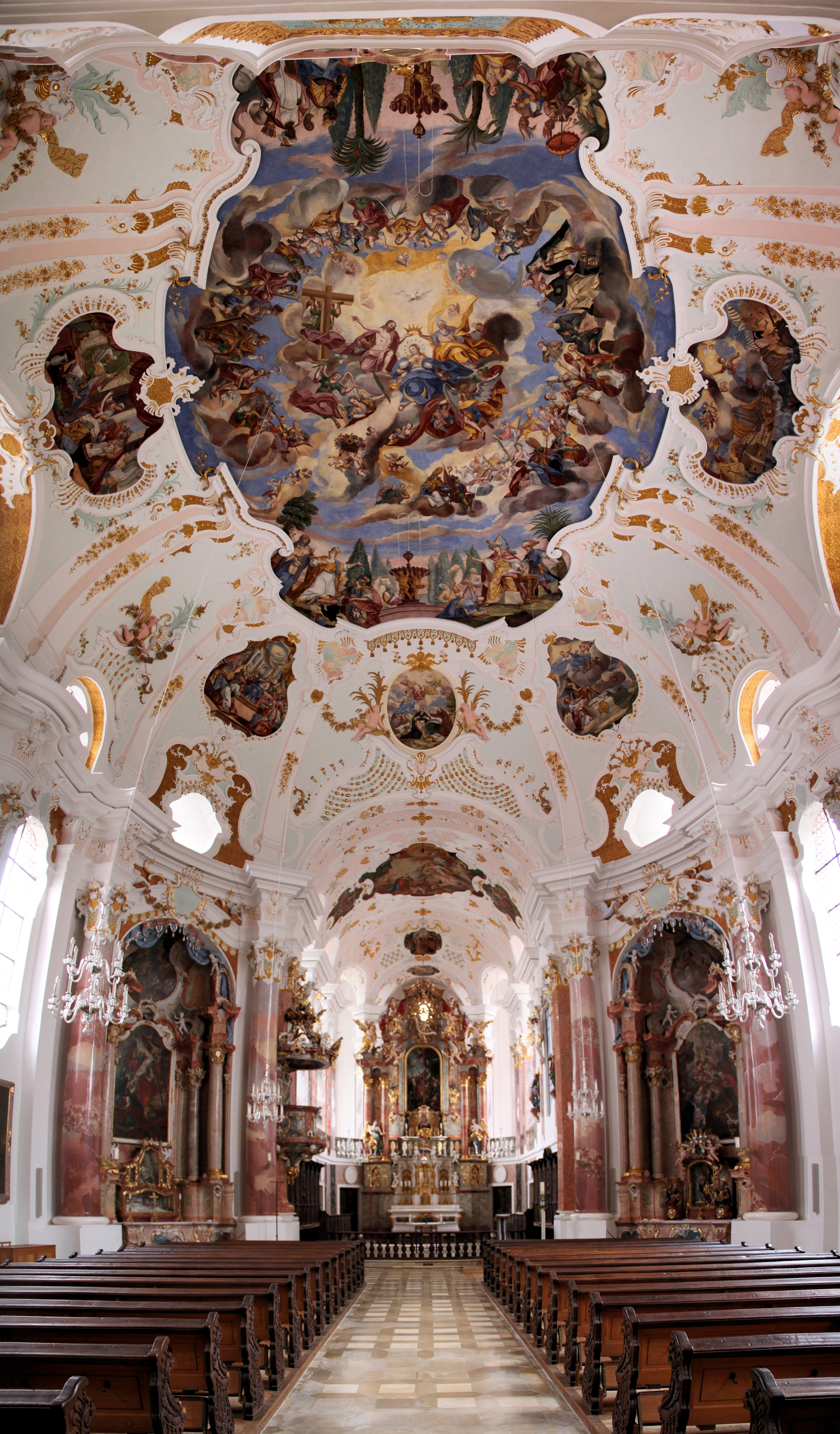 Günzburg: Interior of the Frauenkirche (forward view)